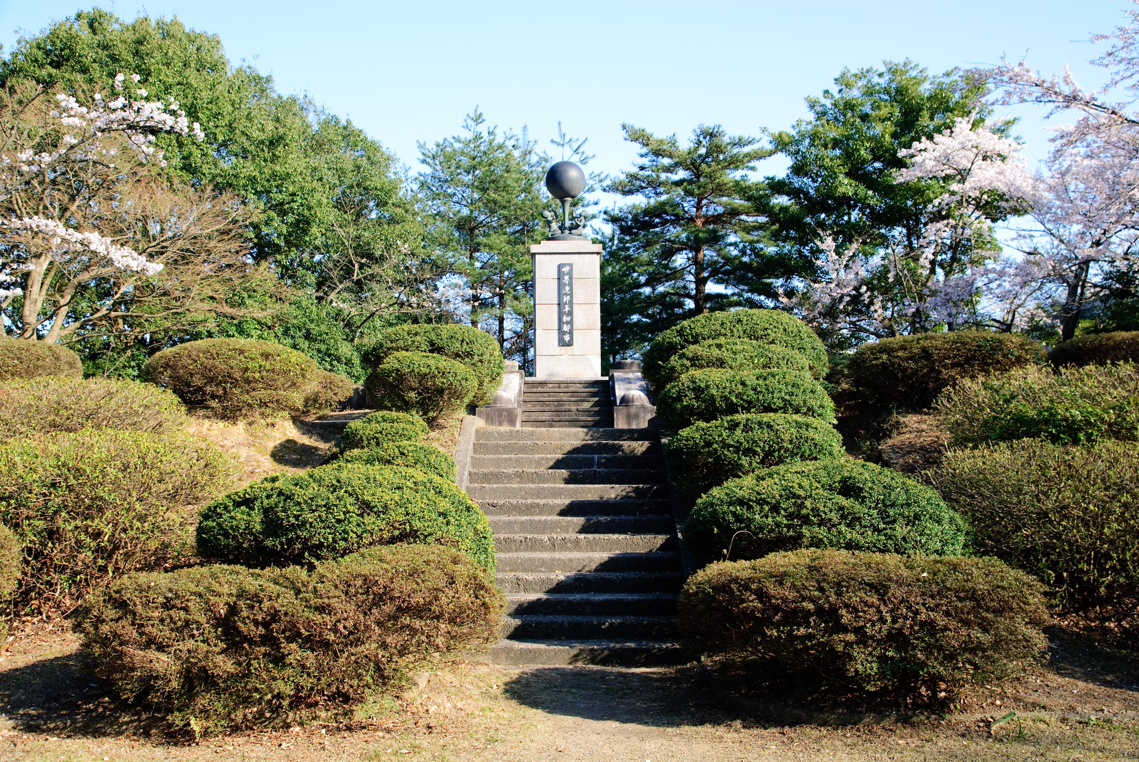 Sanno Park in Toyooka, Hyogo Prefecture, Japan.